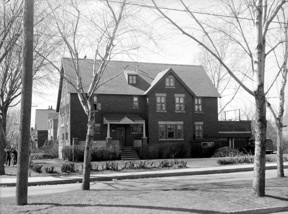 We see the Hampstead Town Hall located at 5569 Queen Mary Road in Hampstead.